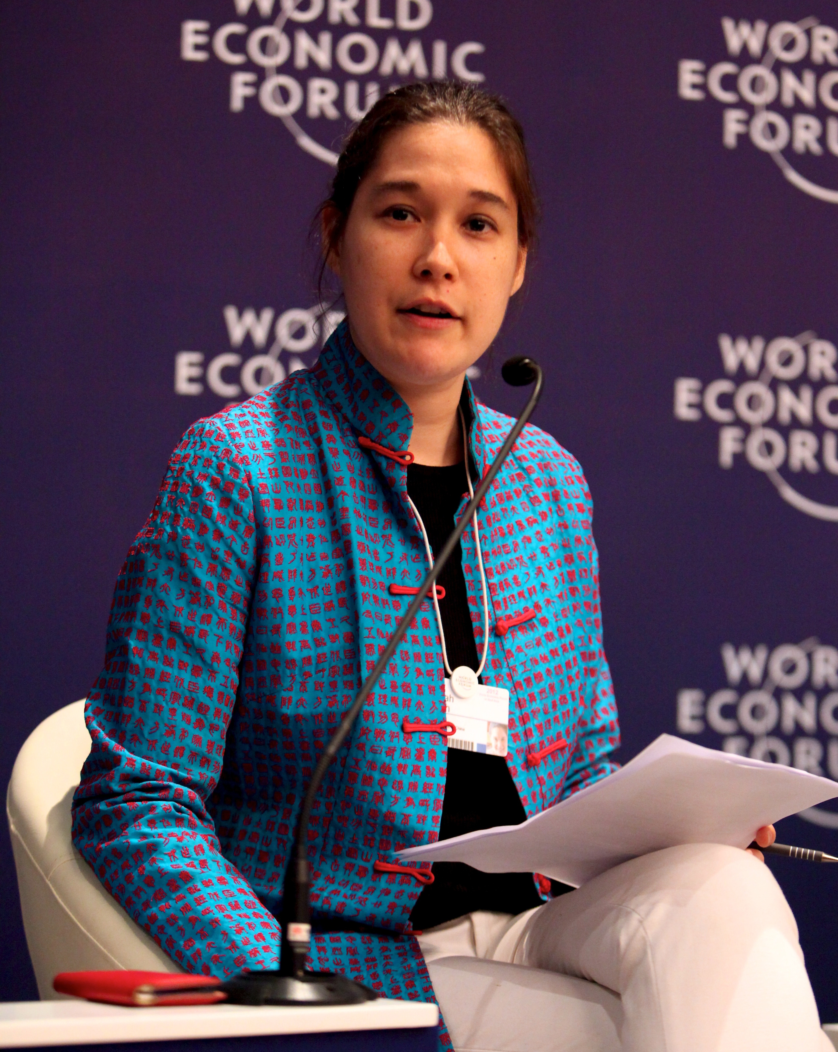 BANGKOK/THAILAND, 31MAY12 - Hannah Beech, East Asia Correspondent, Time Magazine, People's Republic of China, is captured during the World Economic Forum on East Asia in Bangkok, Thailand, May 31, 2012. Copyright World Economic Forum ( Photo by Sikarin Thanachaiary